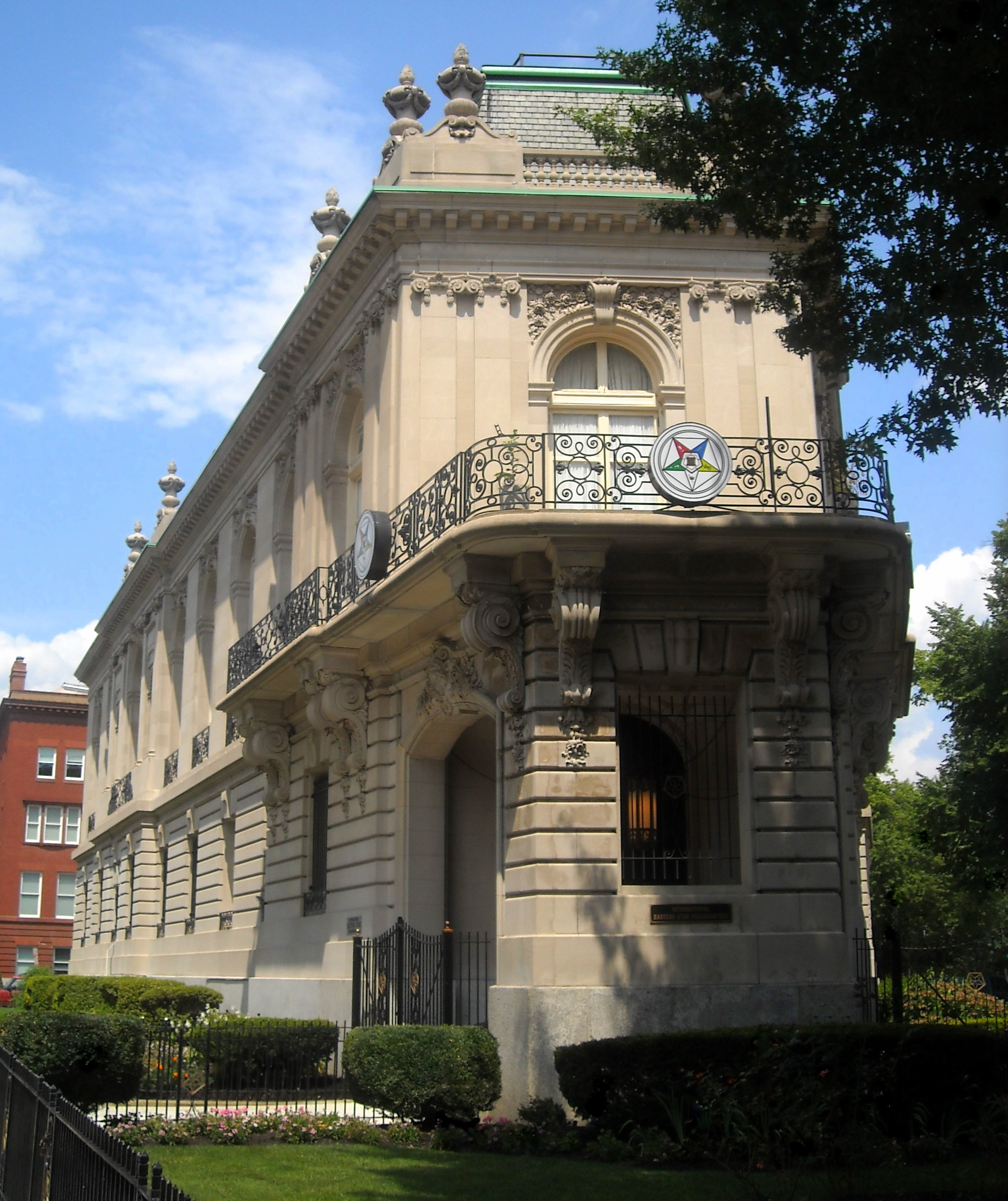 The International Temple, also known as the Perry Belmont Mansion, located at 1618 New Hampshire Avenue, NW in the Dupont Circle neighborhood of Washington, D.C.